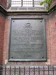 John Robinson Memorial photo taken by Tom Baine on July 16, 2005. Pieterskerk Leiden 52° 9' NB, 4° 29' OL